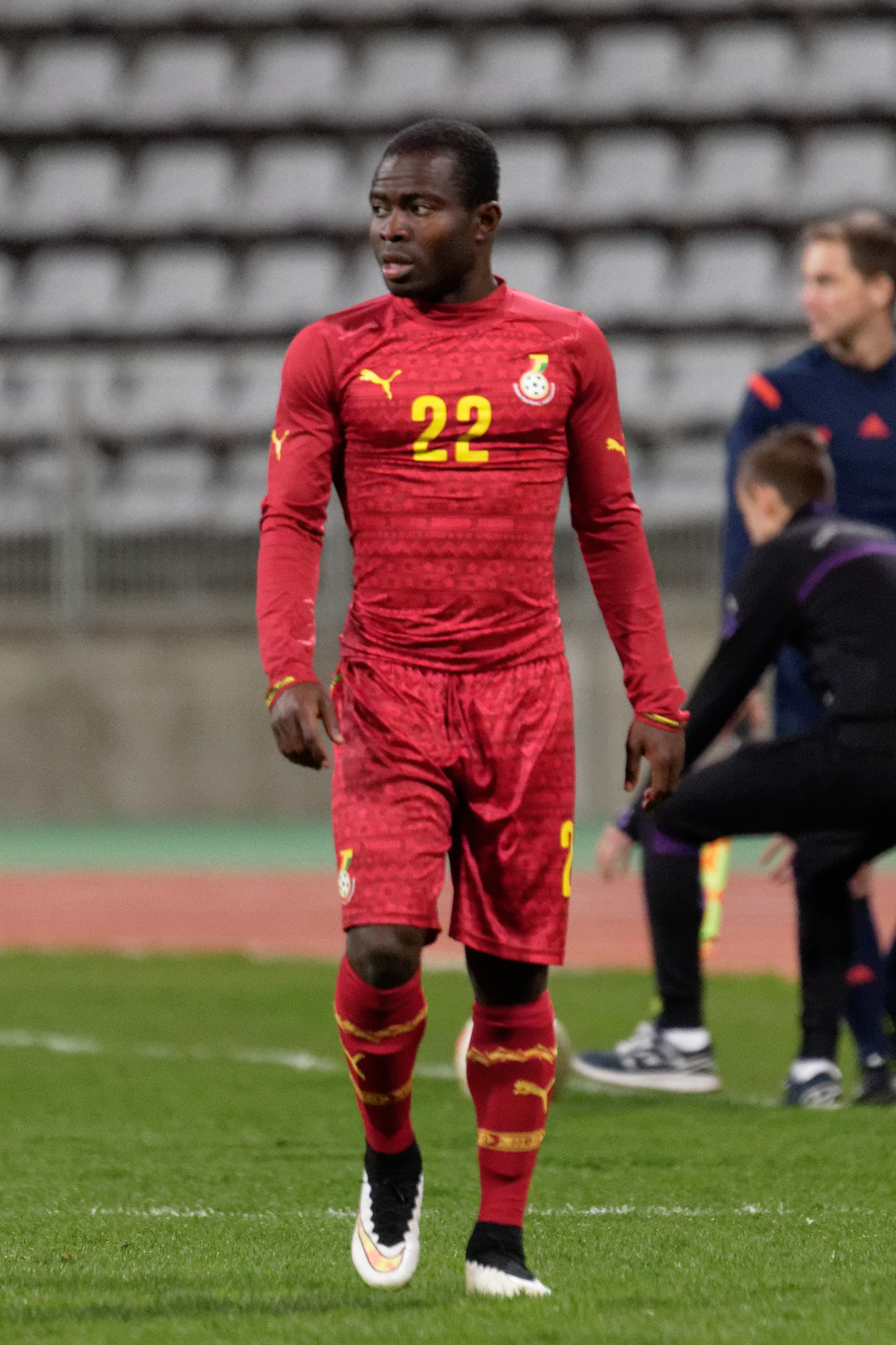 Mali vs Ghana, exhibition game at Paris, 31st March 2015.